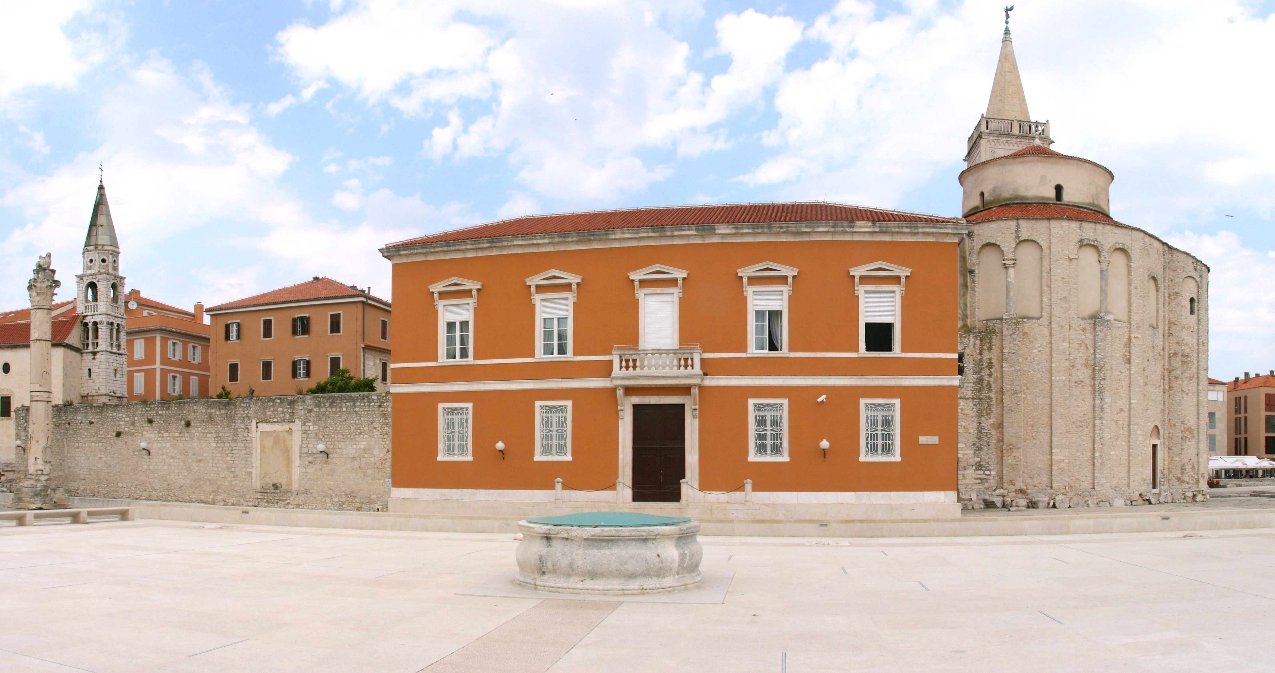 Zadar, Croatia.